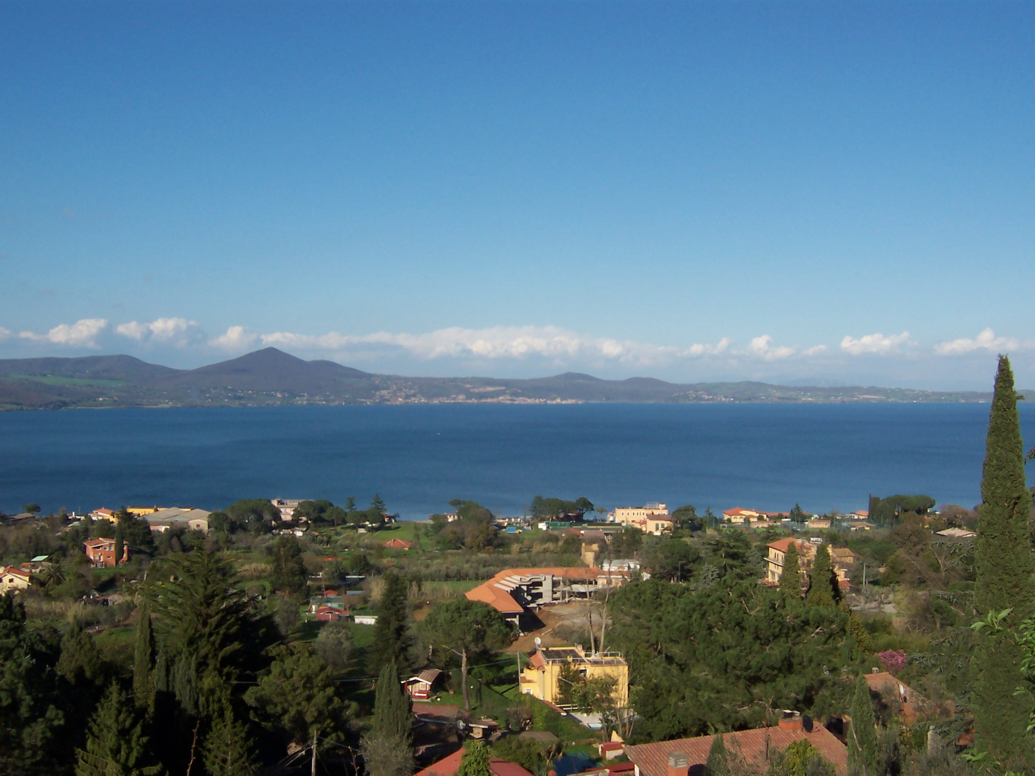 Lake Bracciano, Bracciano, Italy in 2004.